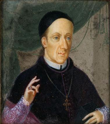 1800 - bispo no algarve